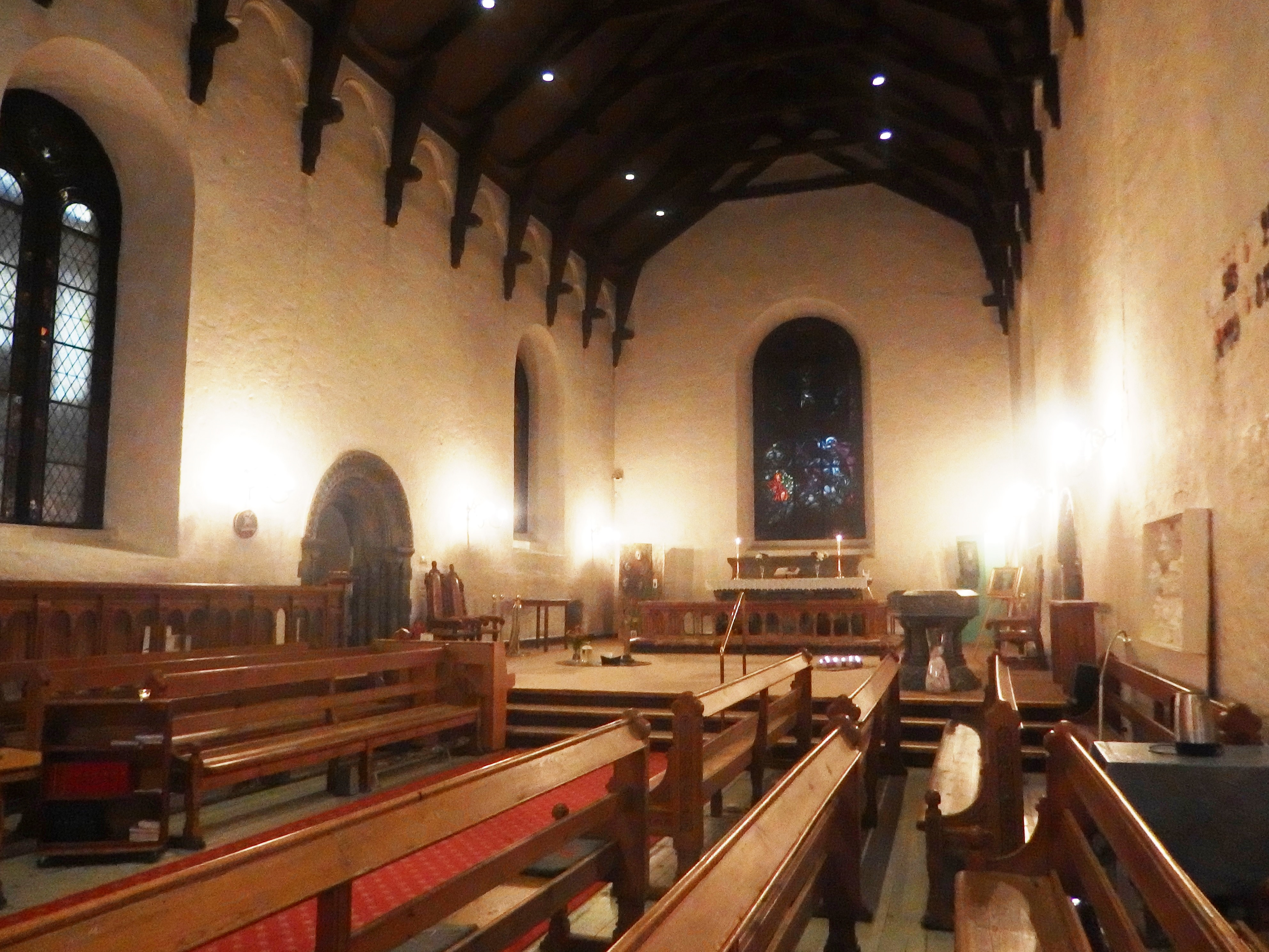 Bergen, Norway.